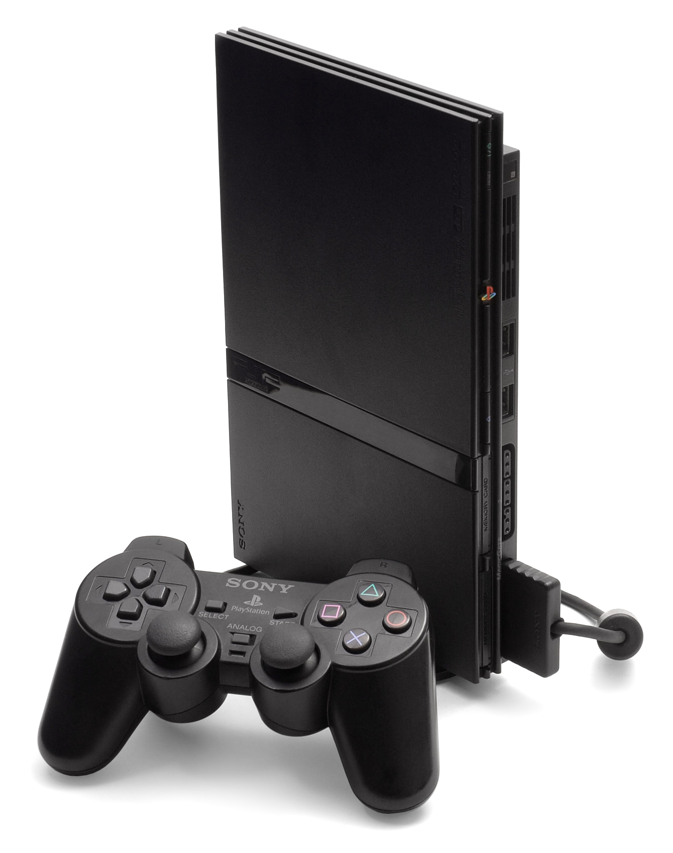 The slimline PS2 with DualShock 2 controller.